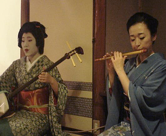 Mameyoshi is playing the shamisen and Fukunami is playing the Japanese flute. They are playing Gion Kouta. They are both Geisha in Gion and old friends of mine.